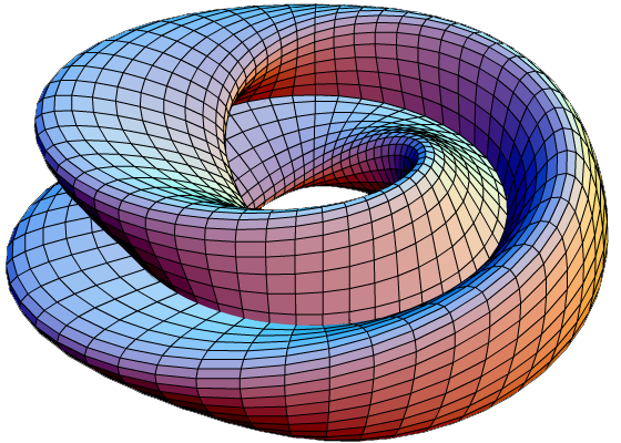 The "figure 8" immersion of the Klein bottle.